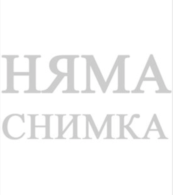 Botev_njama_snimka